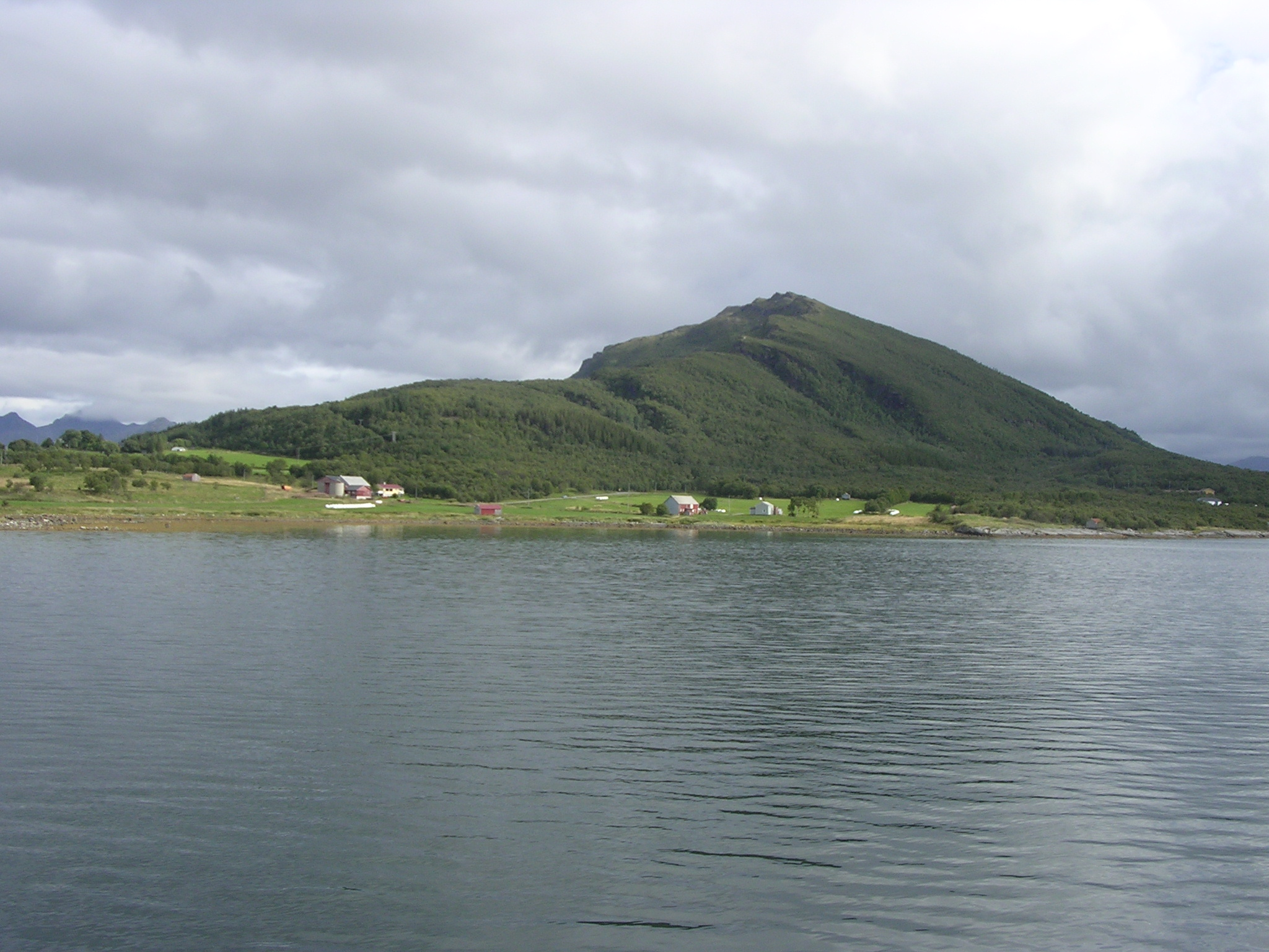 Handnesøya island in Nesna, Norway seen from the south